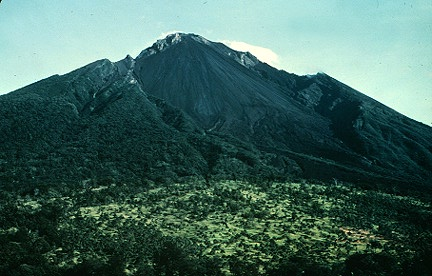 Manam volcano on Manam Island in Papua New Guinea